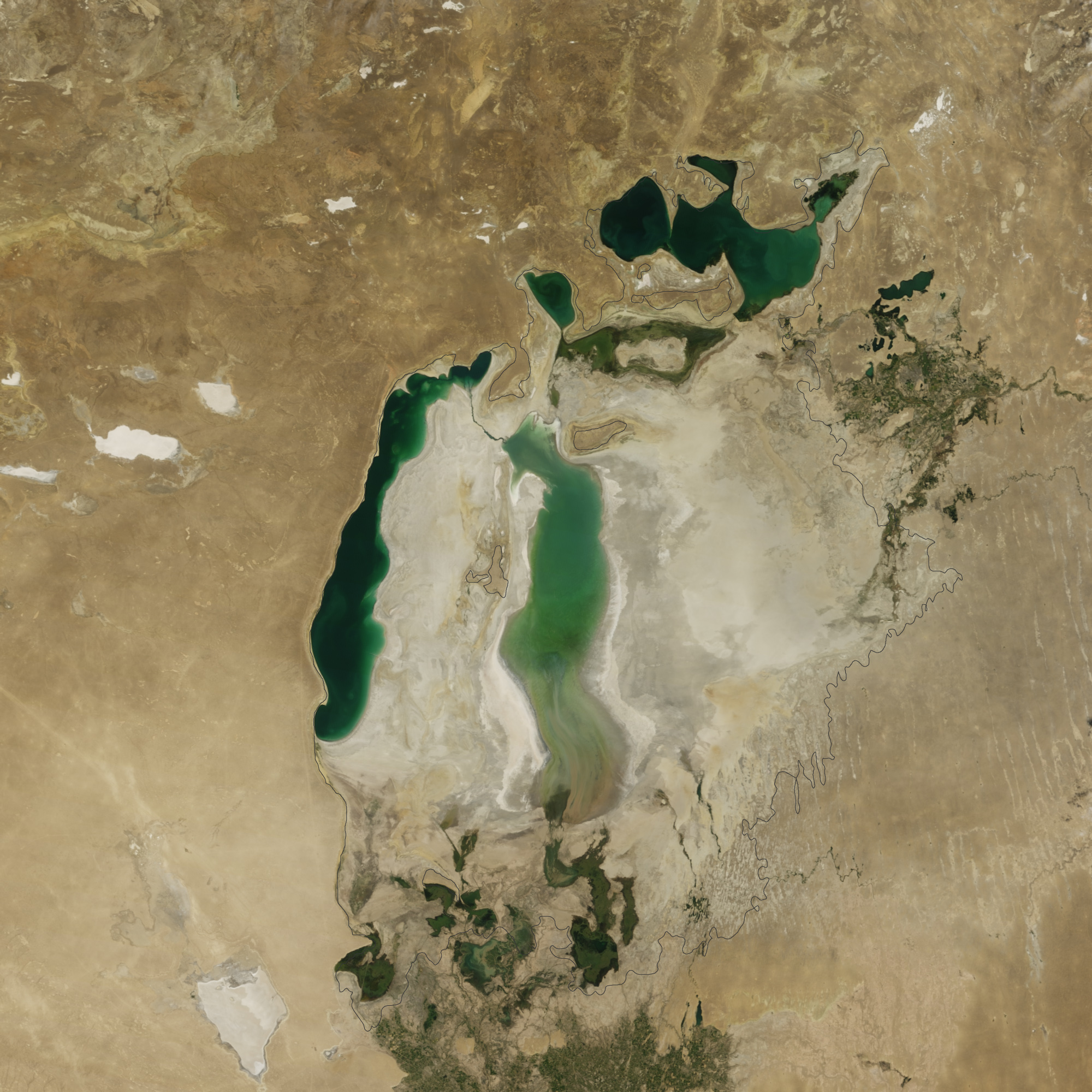 The Aral Sea in August 2010, taken by the Moderate Resolution Imaging Spectroradiometer (MODIS) on NASA’s Terra satellite.